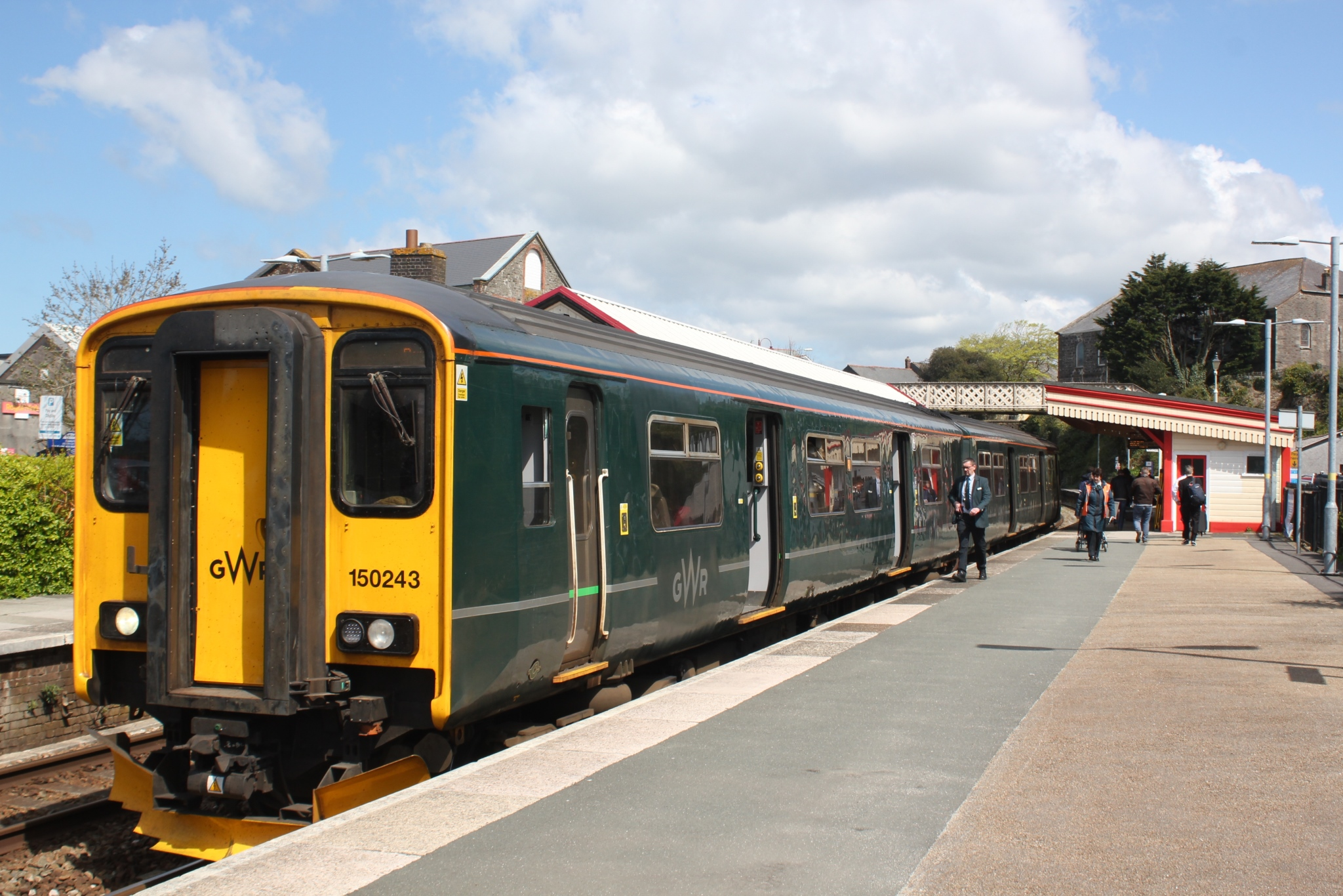 A sunny spring day finds 'Sprinter' 150243 at Redruth in Cornwall. It is working a Great Western Railway service from Bristol to Penzance.